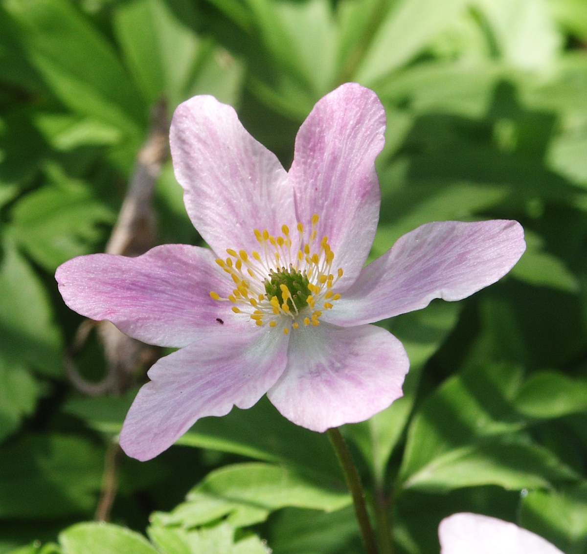 Anemone nemorosa, Hohenloher Land, Germany